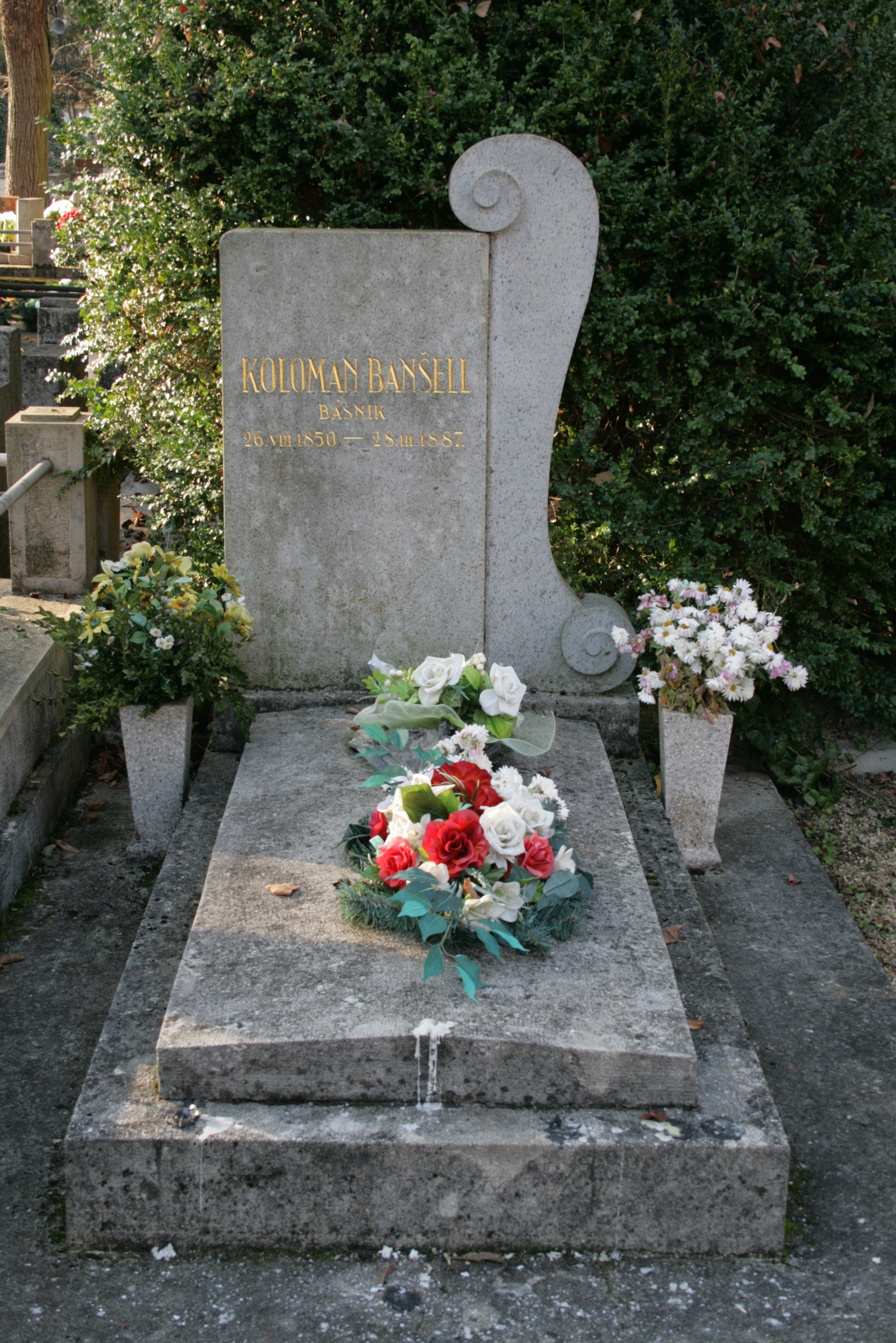 Tomb of Koloman Banšell in Lučenec (Slovakia).